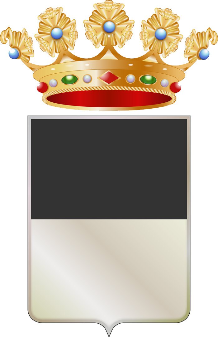 Coat of arms of the Municipality of Ferrara (Province of Ferrara).